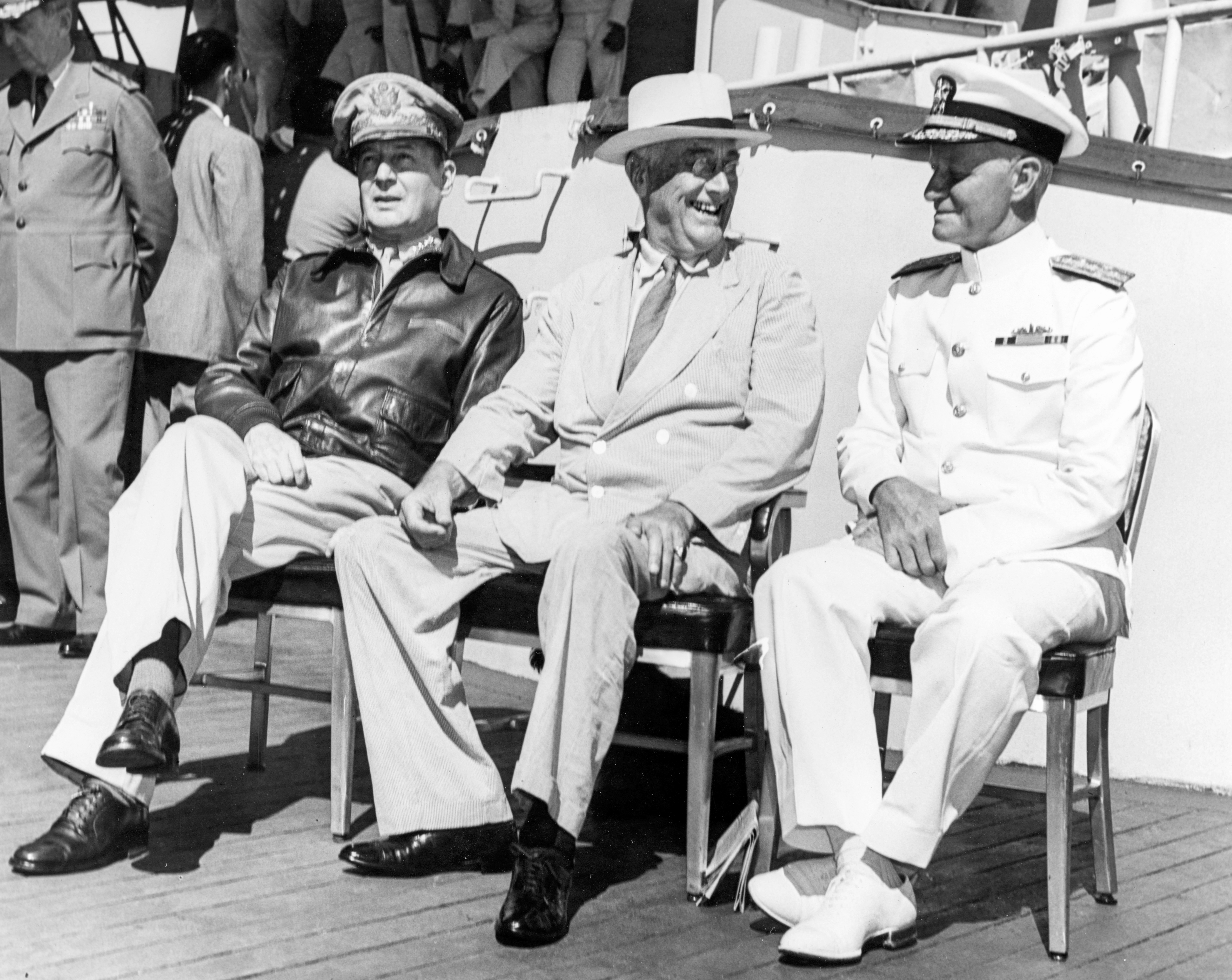 On board USS Baltimore (CA-68), at Pearl Harbor, Hawaii, 26 July 1944. Admiral William D. Leahy, the President's Chief of Staff, is standing in the left background.